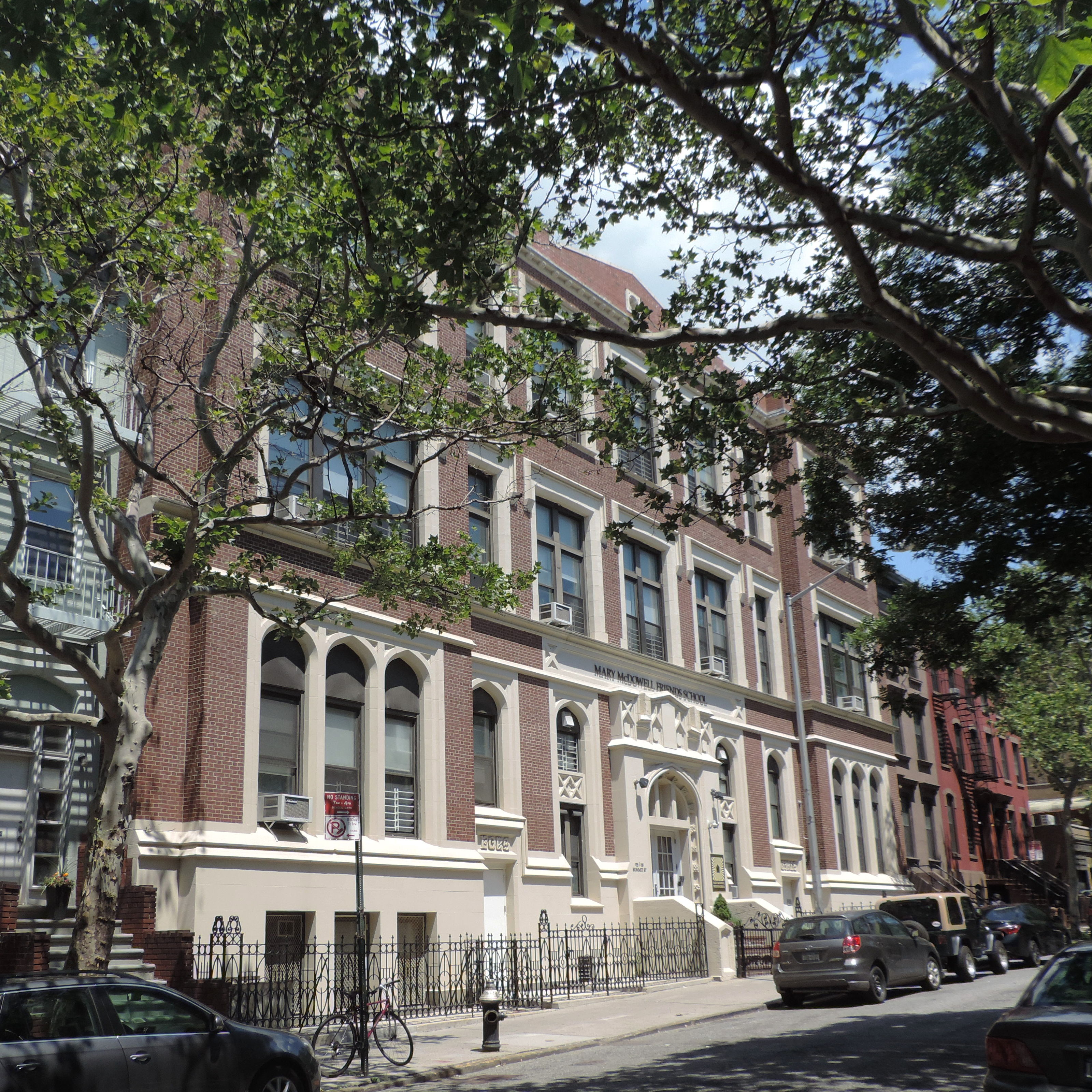 Looking east at school on a partly sunny midday.